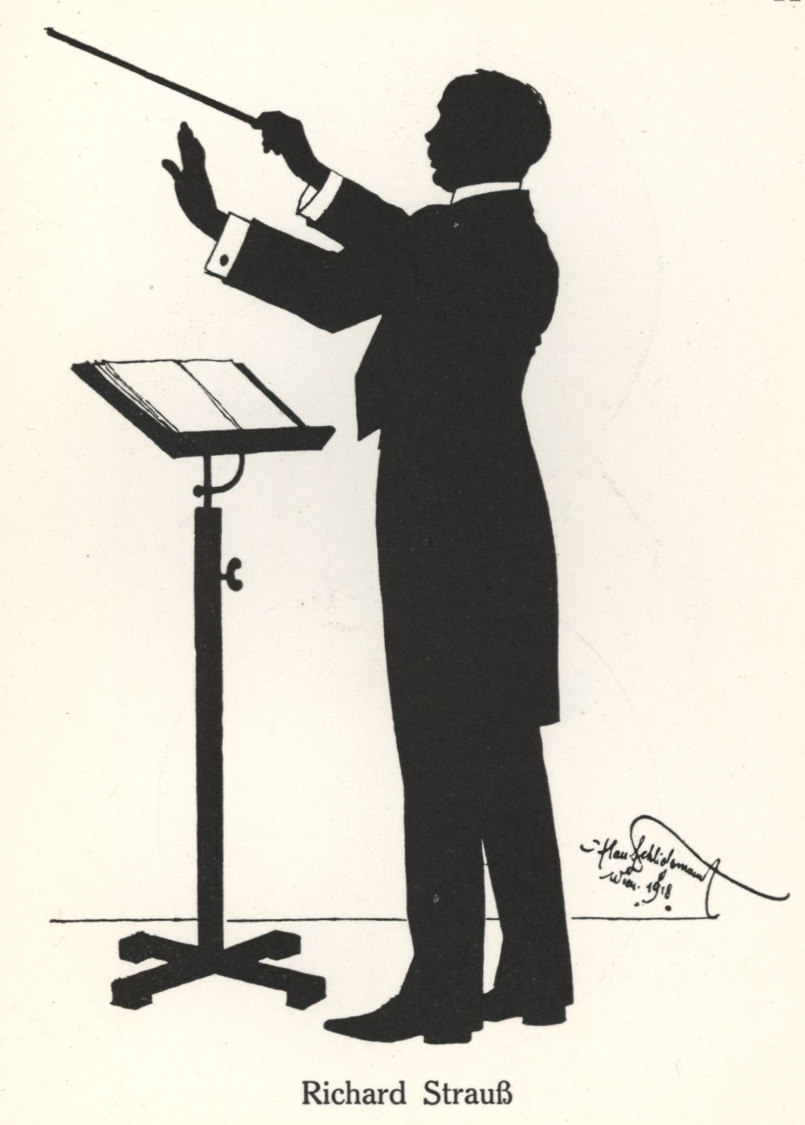 Richard Strauss (1864–1949), German composer, silhouette by Hans Schließmann